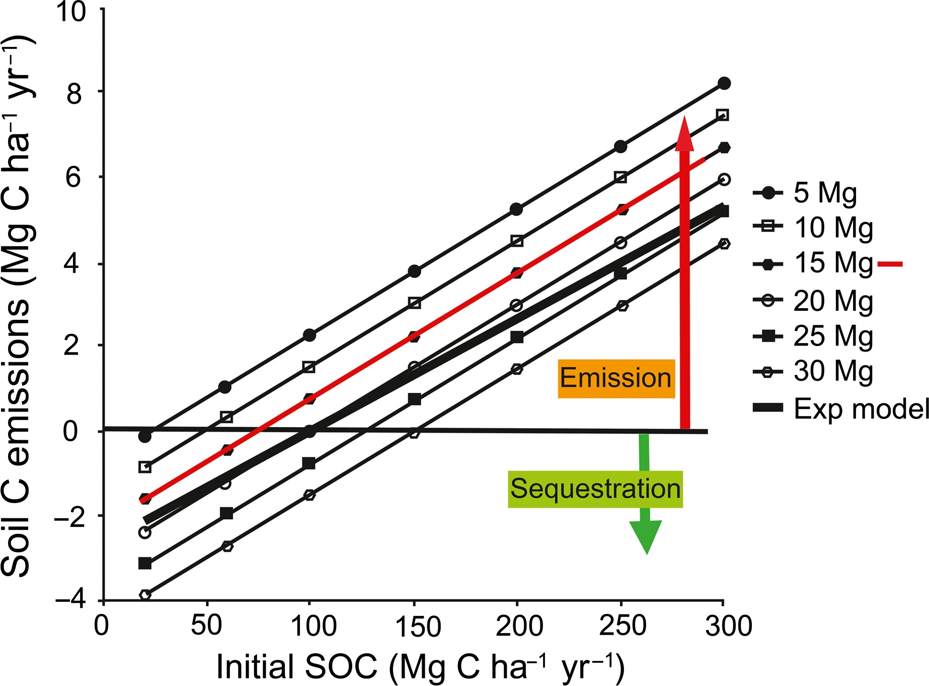 The soil's potential for carbon sequestration depends on how much carbon there already is in the soil. Original caption text: "The modelled relationship between soil C [carbon] emissions and initial SOC [soil organic carbon] within the top 30 cm of soil when planting Miscanthus. The red sloping line (15 Mg) represents the mean peak surface biomass for the Midlands, UK harvest yield of 10 Mg ha−1."